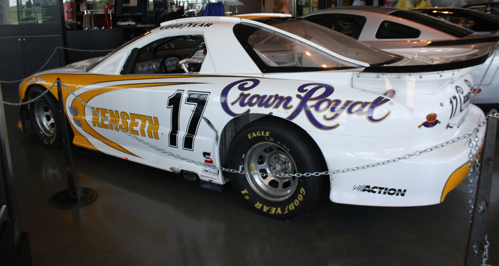 The NASCAR car that Matt Kenseth won the IROC (International Race of Champions) XXVII championship in 2004.